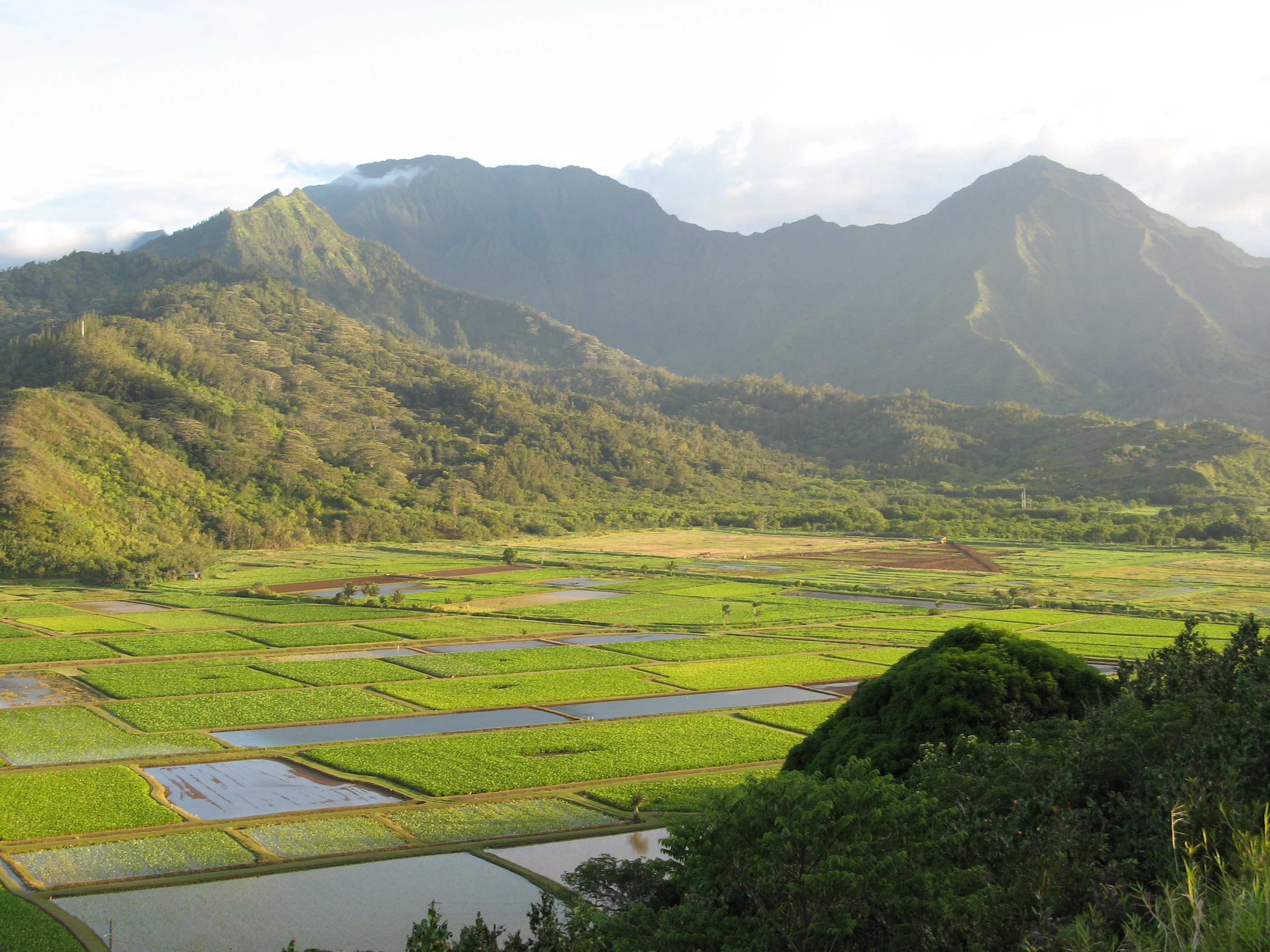 One of the largest taro growing areas in the Hawaiian Islands is the Lower Hanalei Valley. I guess every tourist to Kauai'i has one of these, but I figured it came out well.